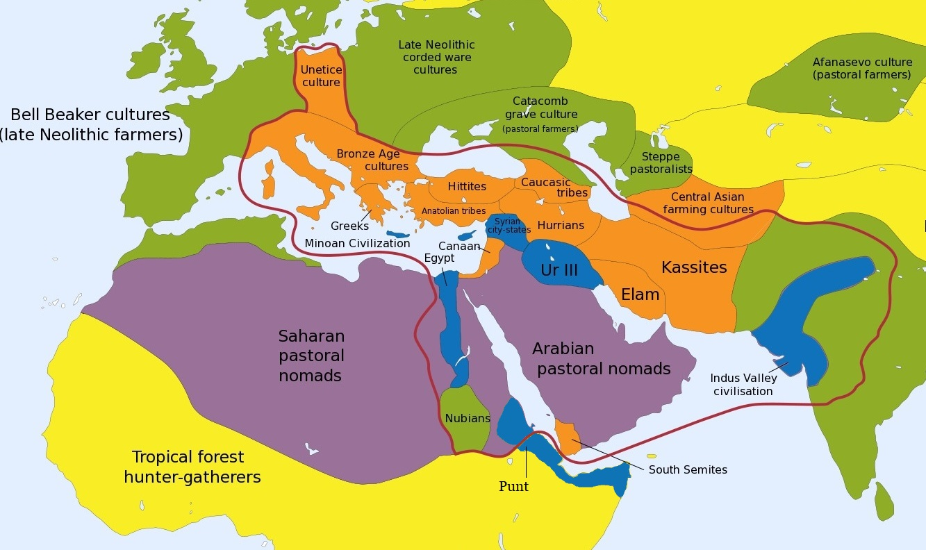 European, North African and West and Central Asian bronze age cultures around 2000 BC